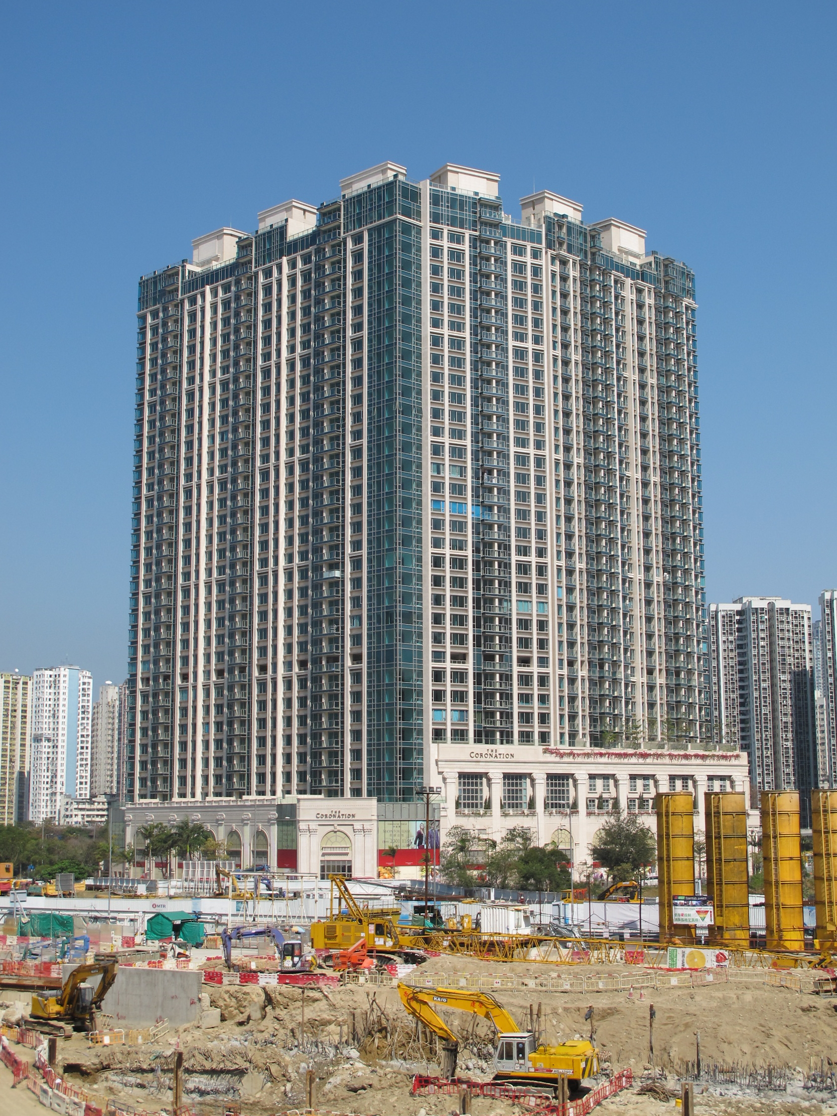 The Coronation 御金·國峯